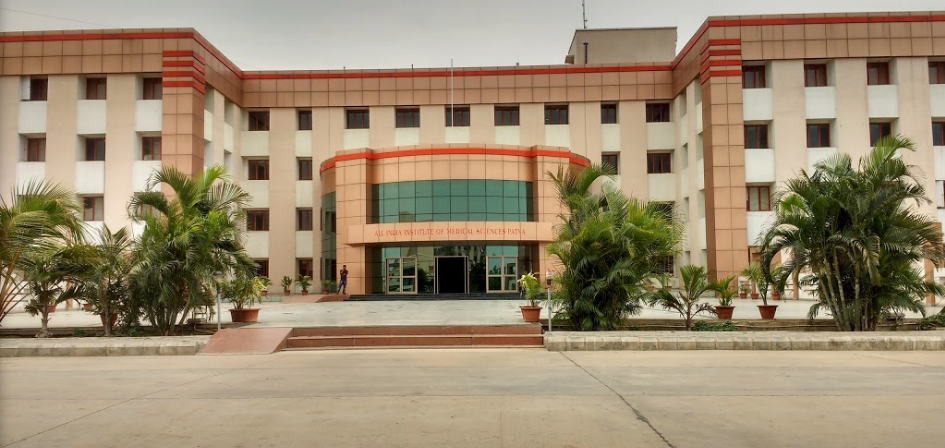 Aiimspatnamain